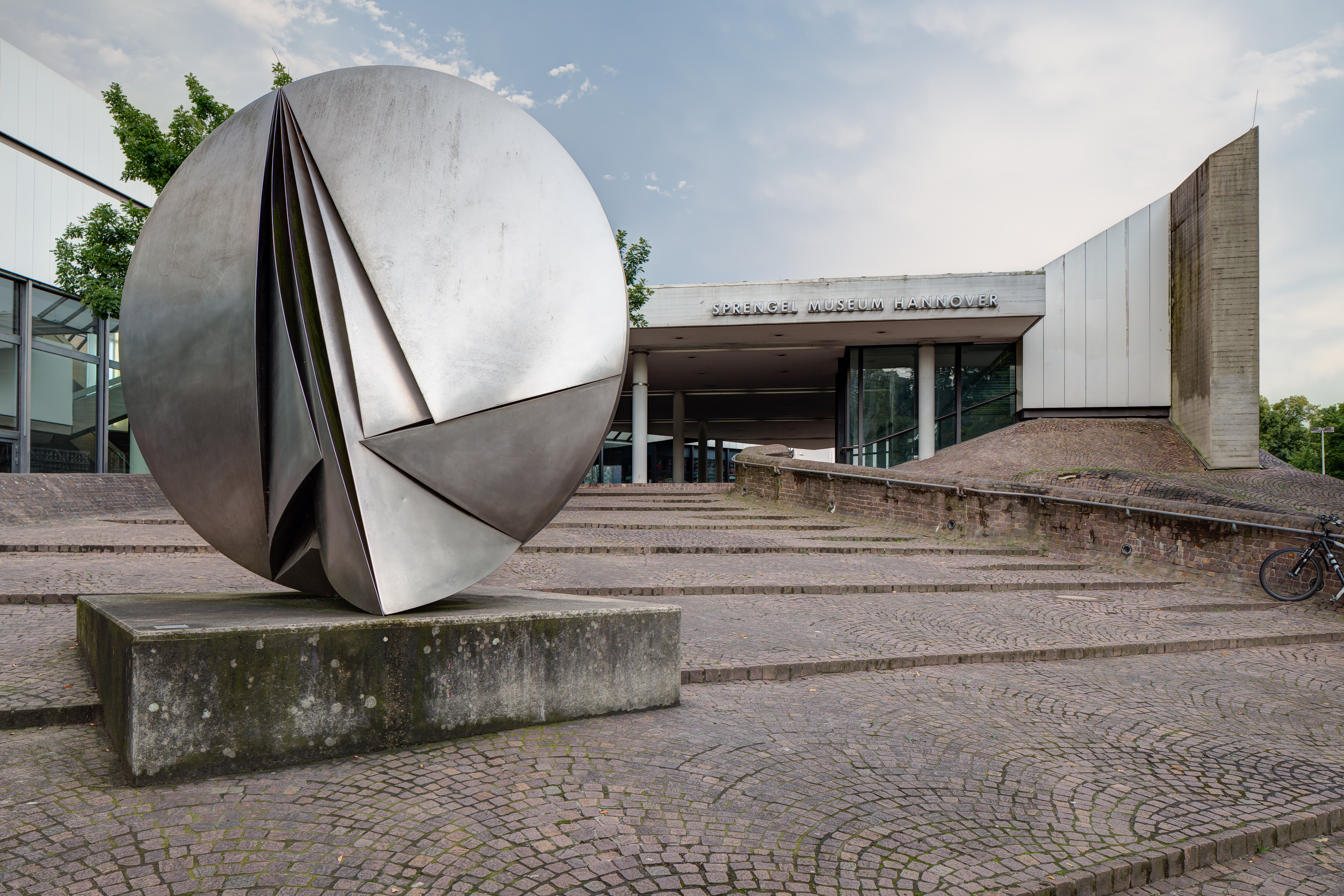 Entrance of Sprengel Museum located at Kurt-Schwitters-Platz square in Hanover, Germany. The sculpture Stahl 5/81 by Erich Hauser can be seen in the foreground. Note: The image was taken with a Canon TS-E 24mm f/3.5 L II lens and not with a TS-E 17mm f/4.0 L as erroneously stated by the EXIF metadata.